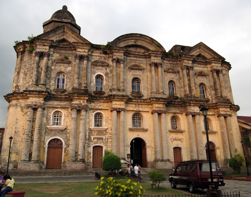 Cathedral de San Martin de Torres